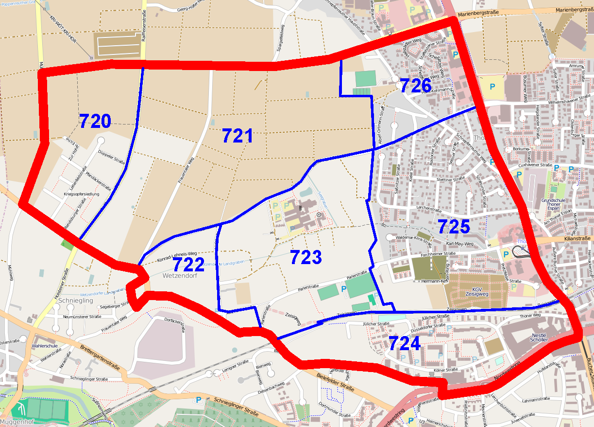 map of Wetzendorf in Nürnberg This map may be incomplete, and may contain errors. Don't rely solely on it for navigation.